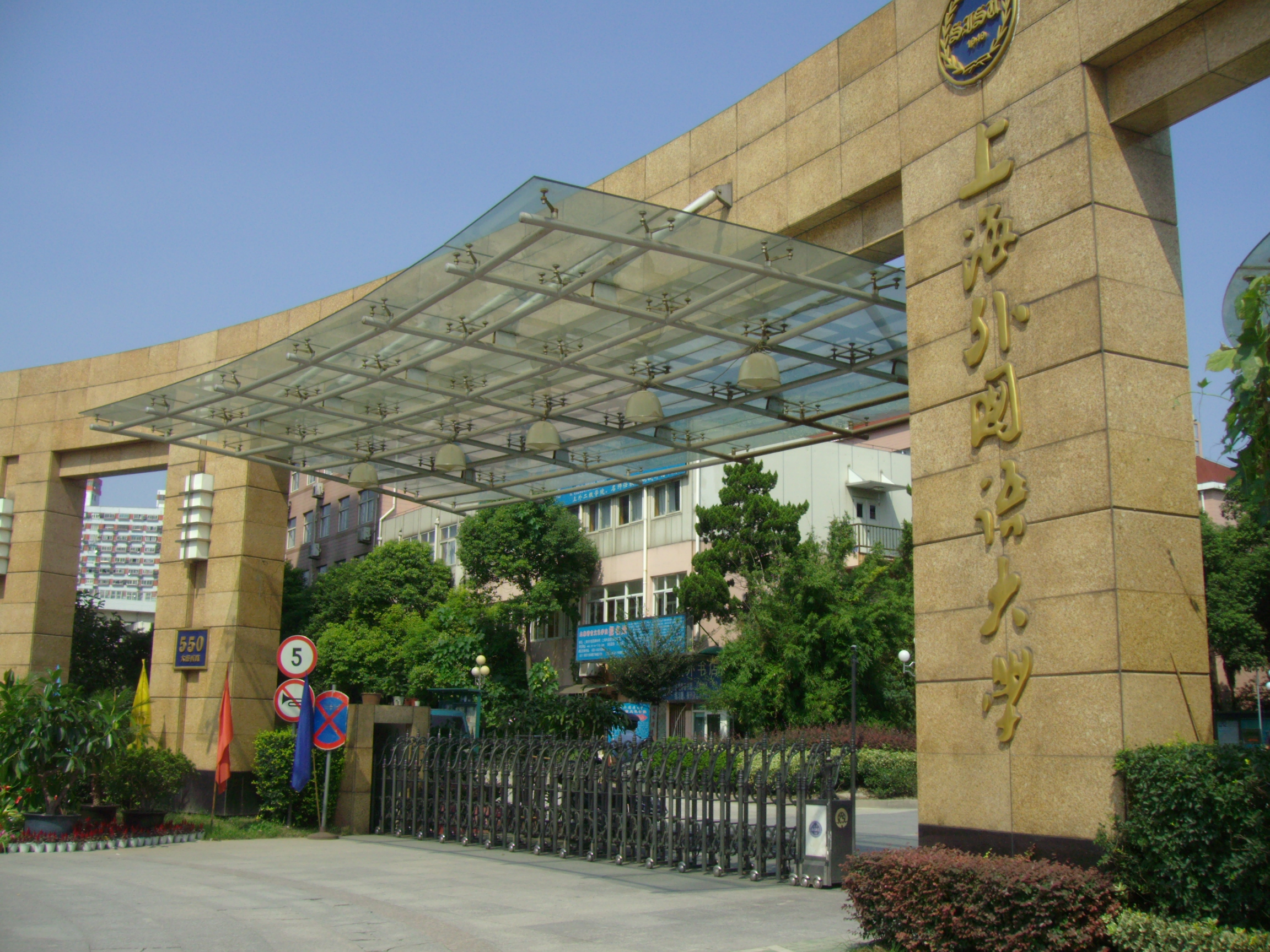 The gate of Shanghai International Studies University